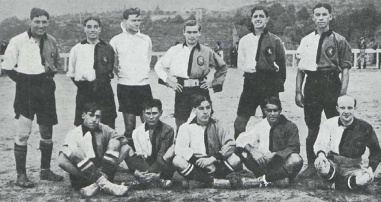 Sporting Lisbon 1916 in Madrid